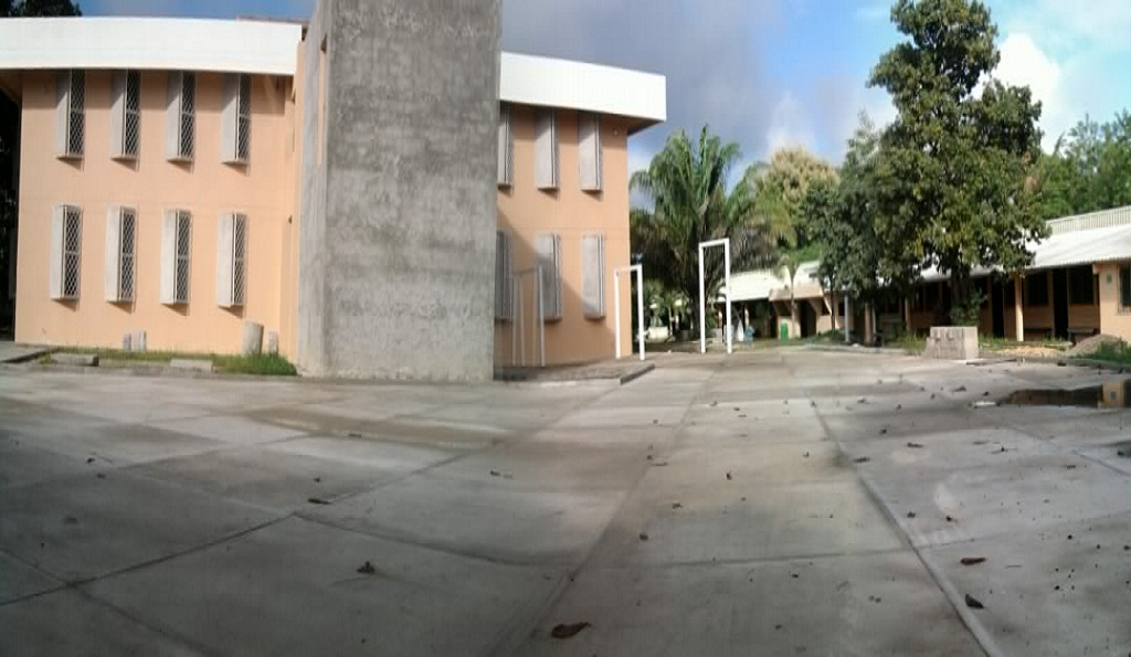 View of University Center Petén of San Carlos University of Guatemala.